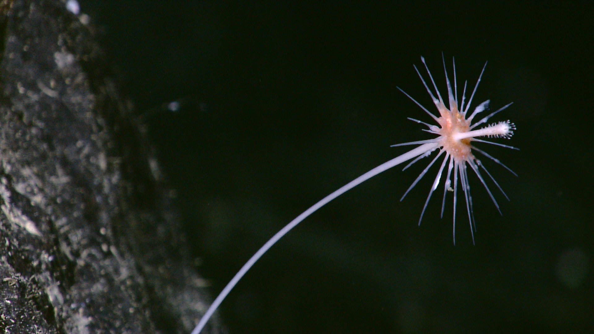 Probably a carnivorous sponge, a cladorhizid. Original description from NOAA: 'This close-up could almost pass for a flower in your garden, but appears to be a sponge - probably a "carnivorous sponge" of the cladorhizids. Image captured by the ROV camera around 1000m depth.'